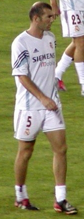 Zinedine Zidane, Balon d'Or winner 1998 (and a few other times).